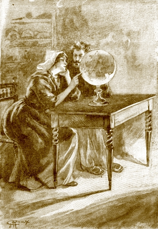 An illustration from Jules Verne's novel "Captain Antifer" (or "The Wonderful Adventures of Captain Antifer", 1894) drawn by George Roux.